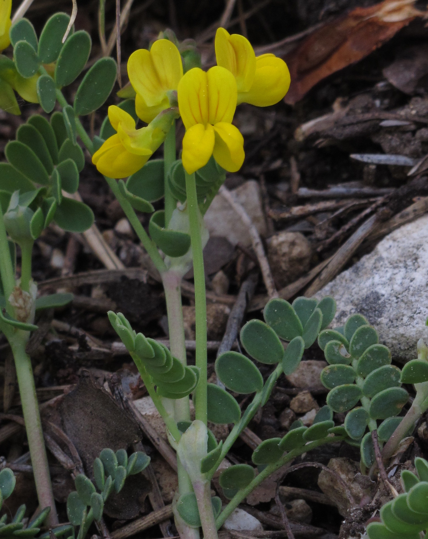 Coronilla vaginalis, at the path from Sëlva to val longia, South Tyrol, Italy